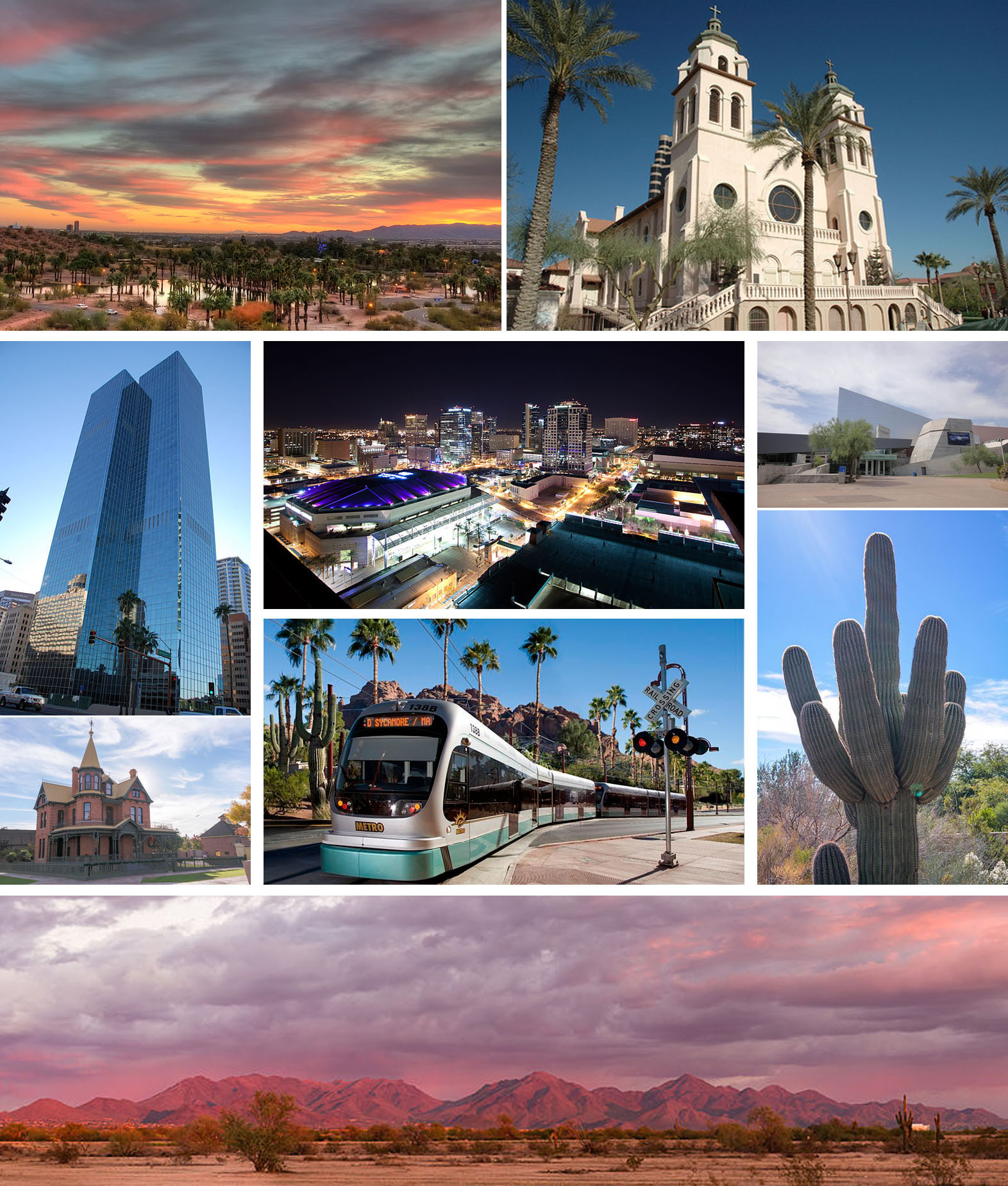 Montage of Phoenix, Arizona